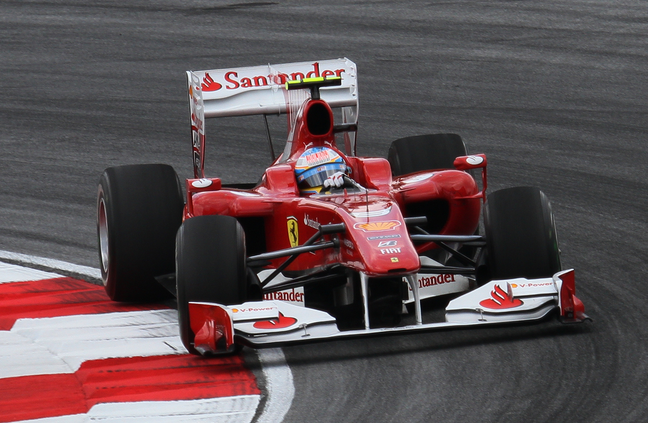 Formula One 2010 Rd.3 Malaysian GP: Fernando Alonso (Ferrari) during Saturday 3rd Free Practice session.